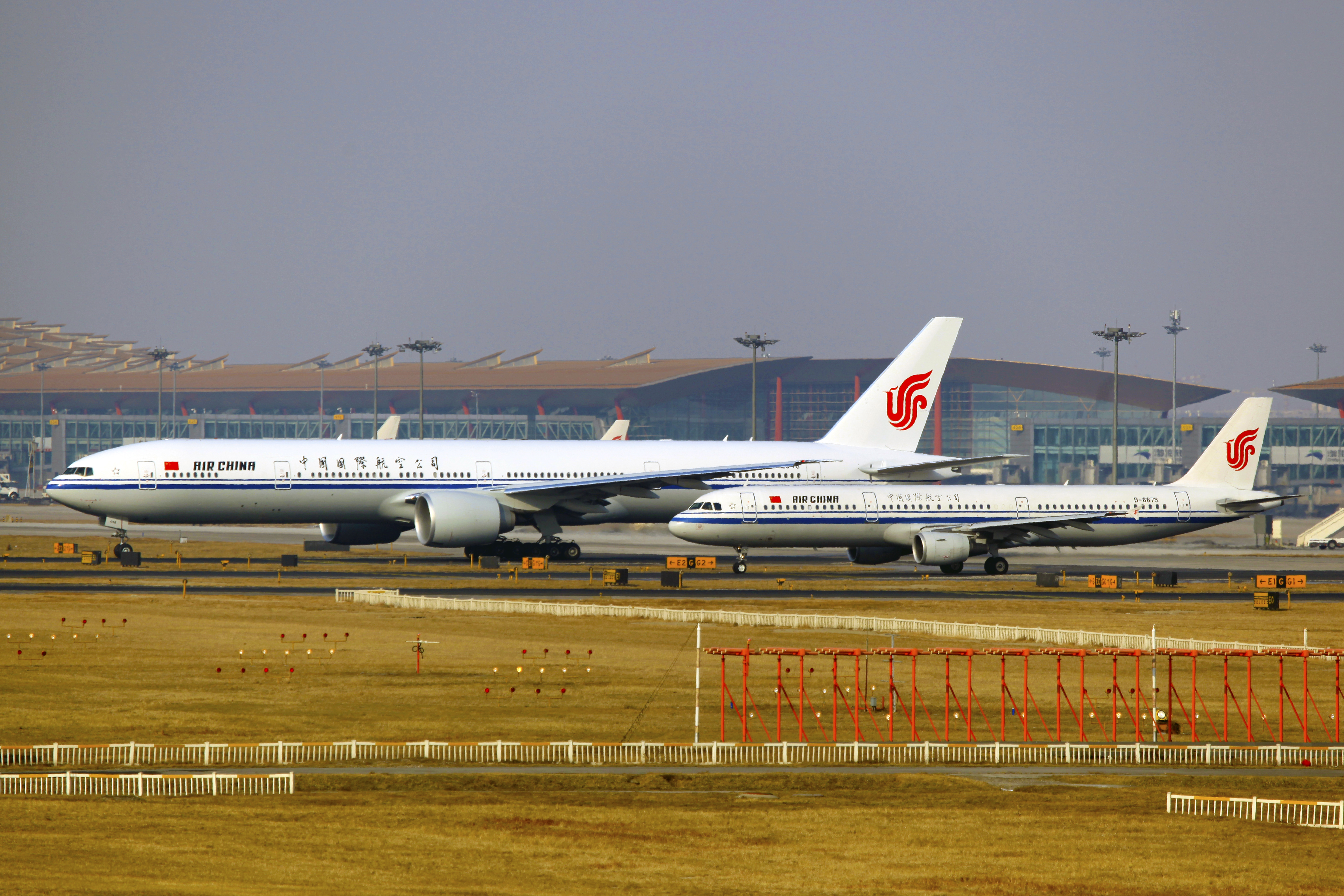 B-2046 & B-6675 | Air China | Boeing 777-39L(ER) & Airbus A321-213 | Beijing Capital International Airport [PEK]